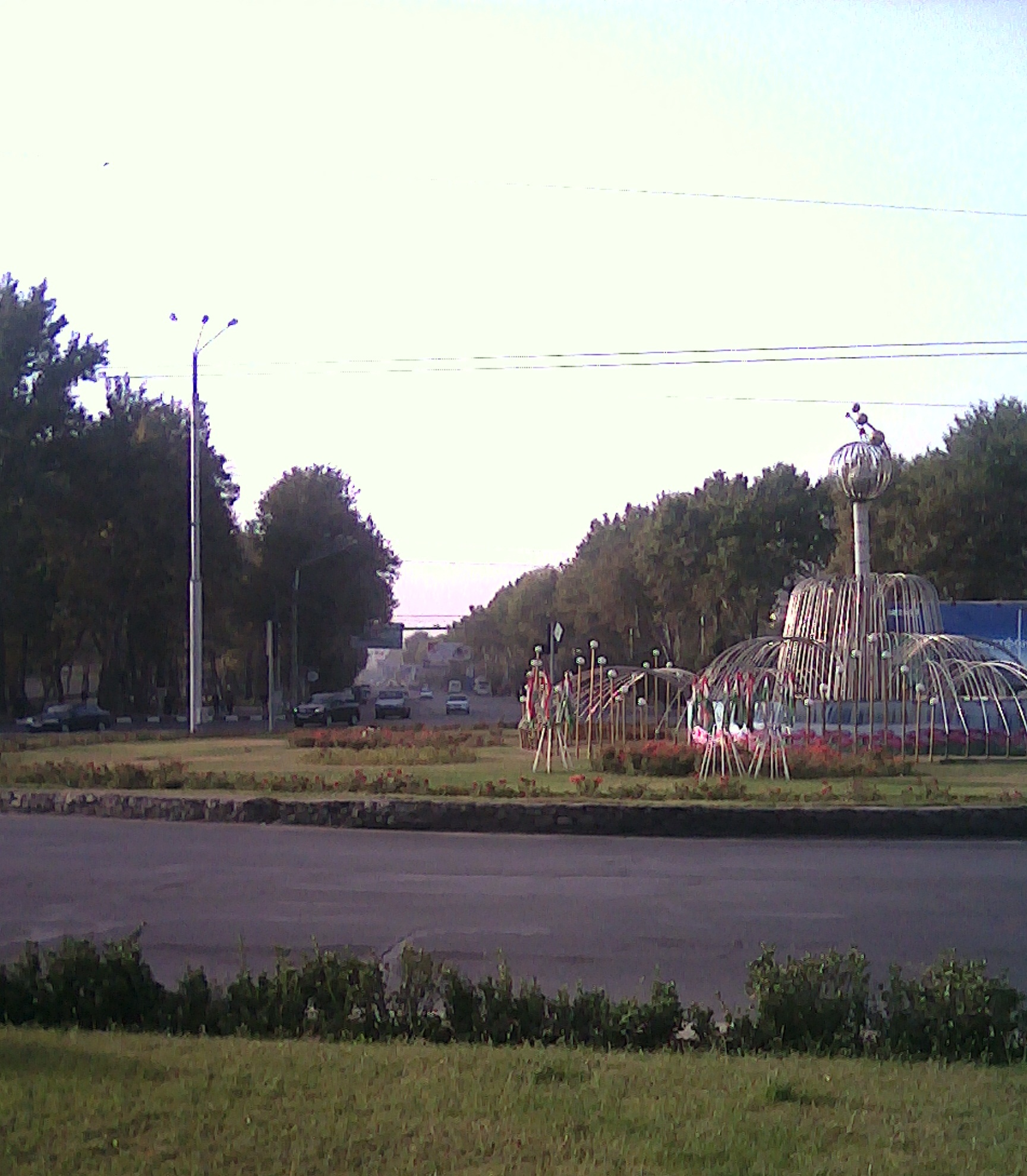 Abuali Sino Avenue in Dushanbe